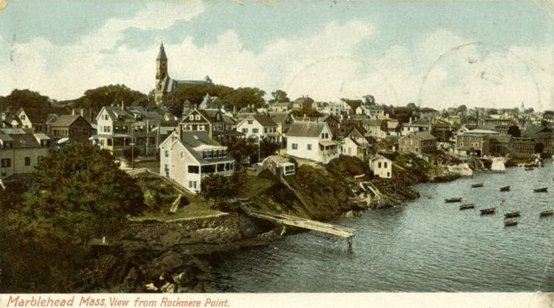 Postcard: View of Marblehead, Massachusetts